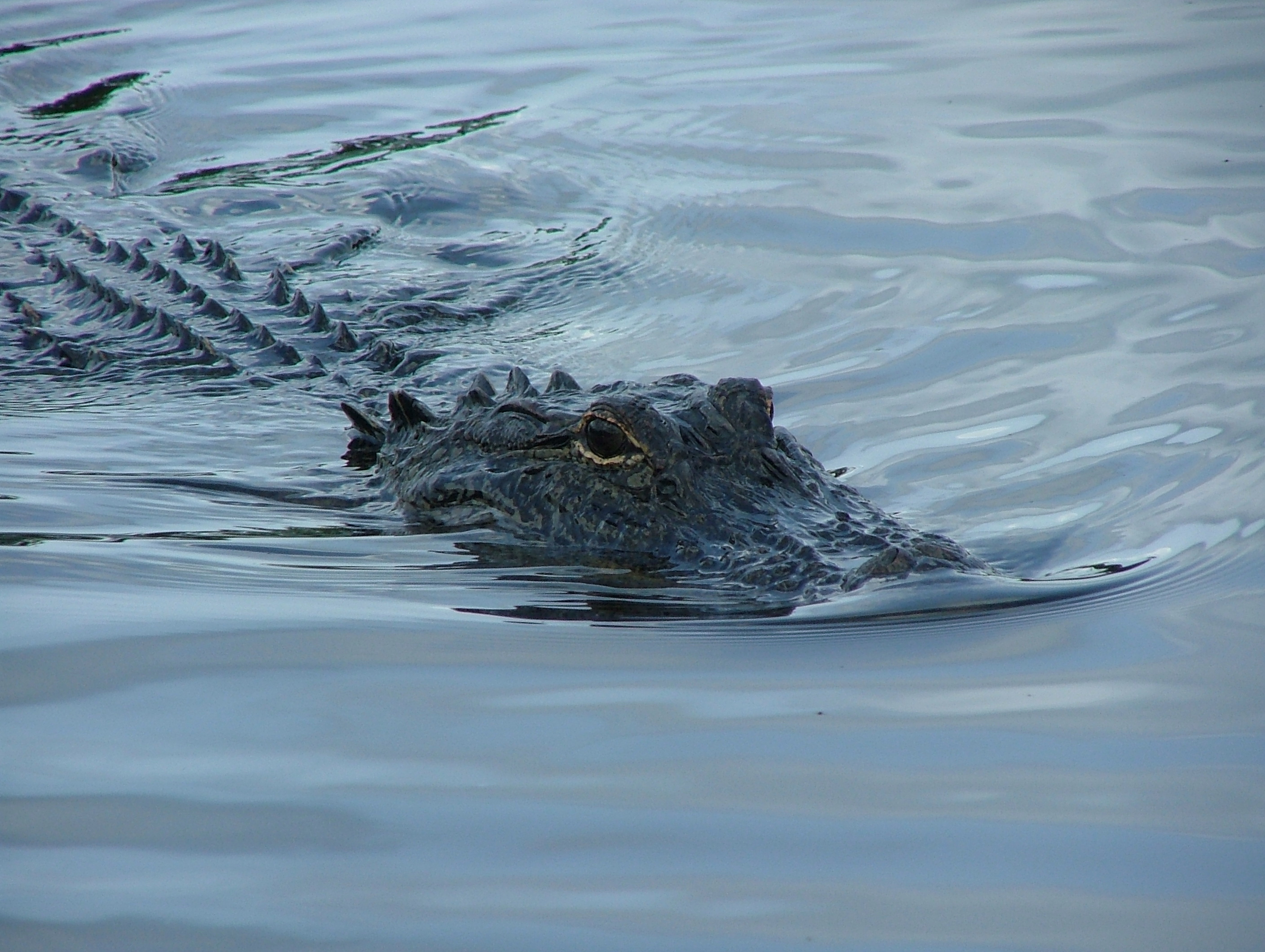 Eye contact with alligator in the swamp near Lafitte, Louisiana. Picture taken by Jan Kronsell, July 2004.